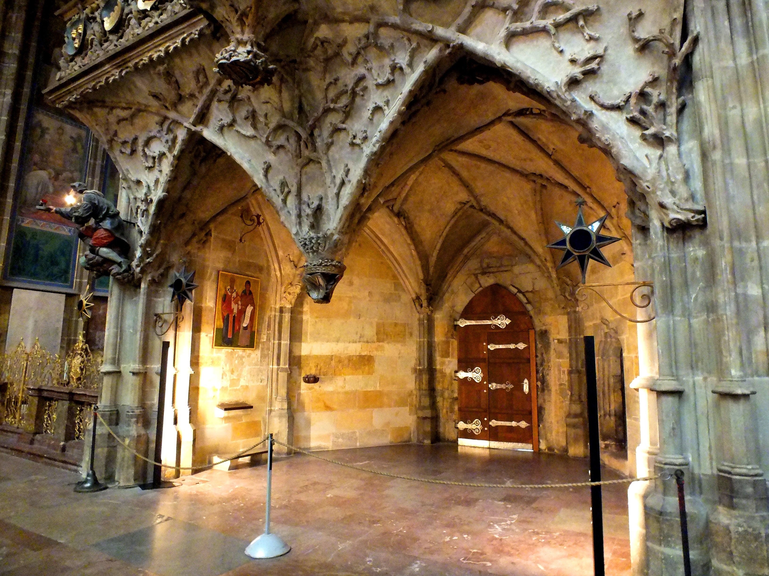 Interior of St. Vitus Cathedral Prague